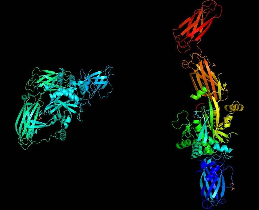 X-ray crystallography structures of tissue transglutaminase